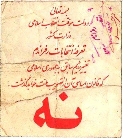 Ballot paper for Iran's referendum for establishment of Government of the Islamic Republic of Iran after 1979 Iranian Revolution. It reads NO in red.